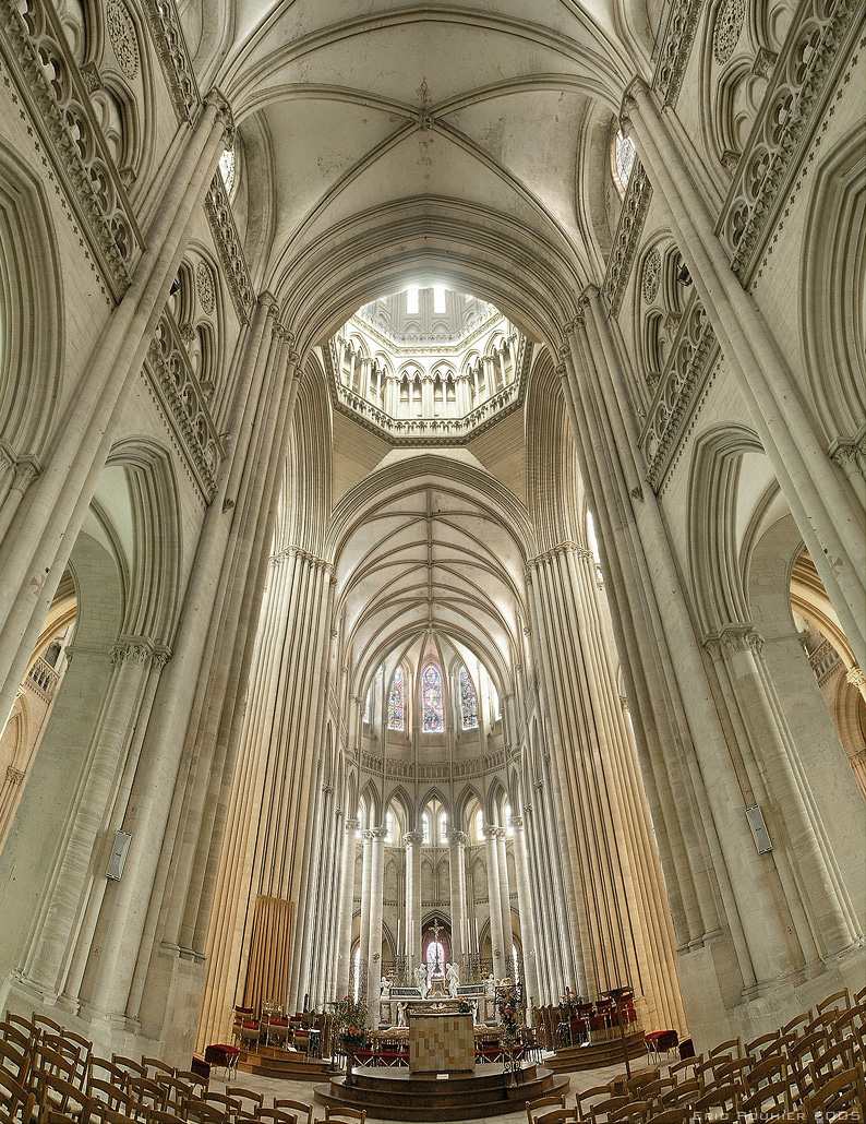 Interior view of Coutances' cathedral, department of Manche, France